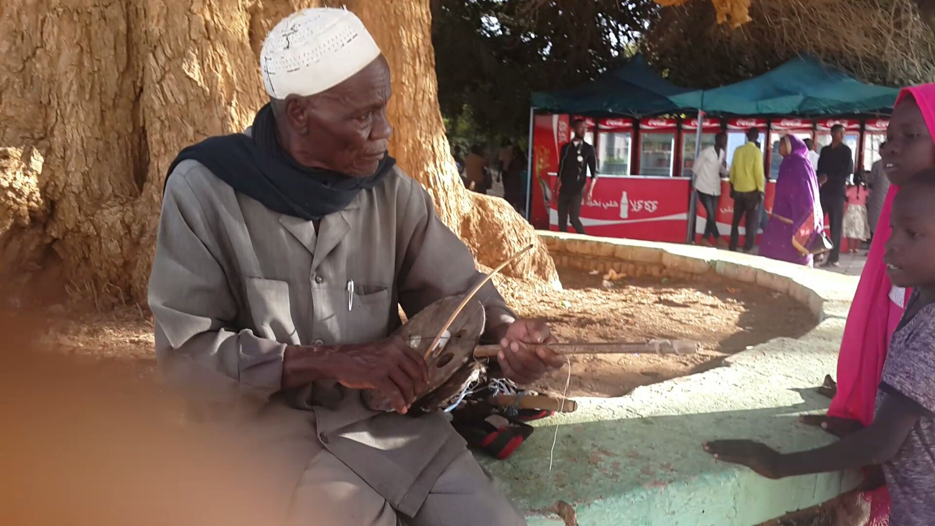 An elder Sudanese man with simple music and little girl listening to him in an old Sudanese folklore.